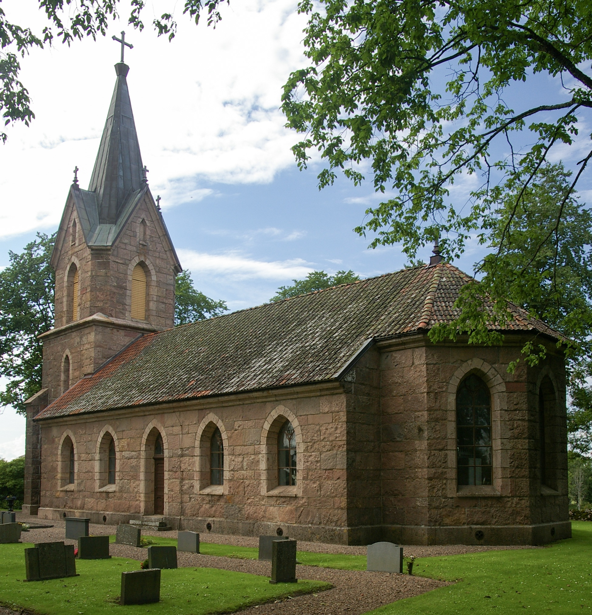 Vistorps kyrka (Swedish:Church of Vistorp) in Västergötland, Sweden.